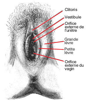 External genital organs of female. The labia minora have been drawn apart.